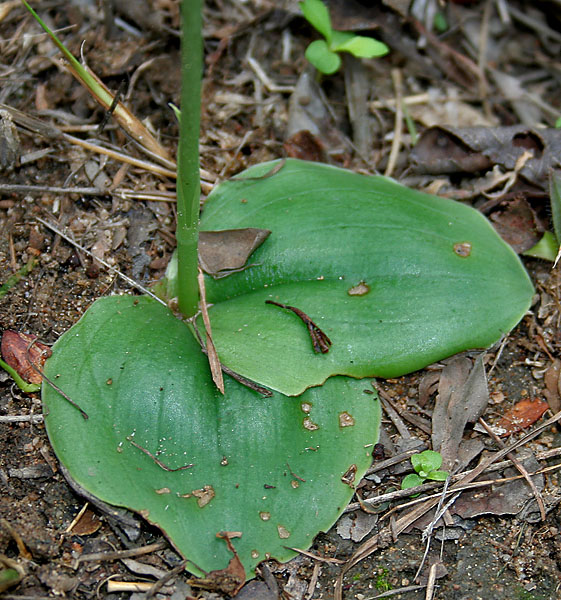 Habenaria roxburghii syn. Habenaria platyphylla at Talakona forest, in Chittoor District of Andhra Pradesh, India.